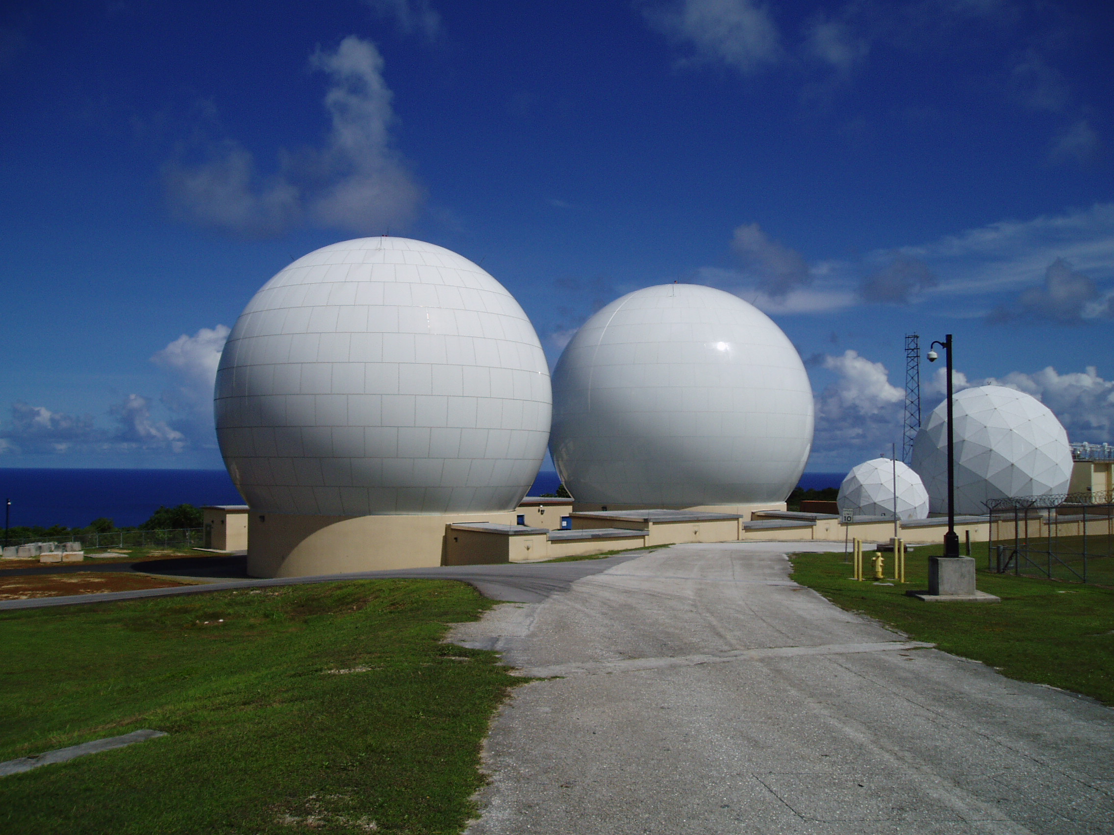 The GRS, which is located in Guam at the Naval Computer and Telecommunications Area Master Station (NCTAMS), has one ground terminal, GRGT containing SGLT 6 and SGLT 7. GRGT closed the Zone Of Exclusion for all the SN customers when it became operational in July 1998. GRGT is a remotely operated ground terminal that is equipped with two SGLT identical to those at WSGT/STGT. GRGT supports the TDRS located at 275°W.